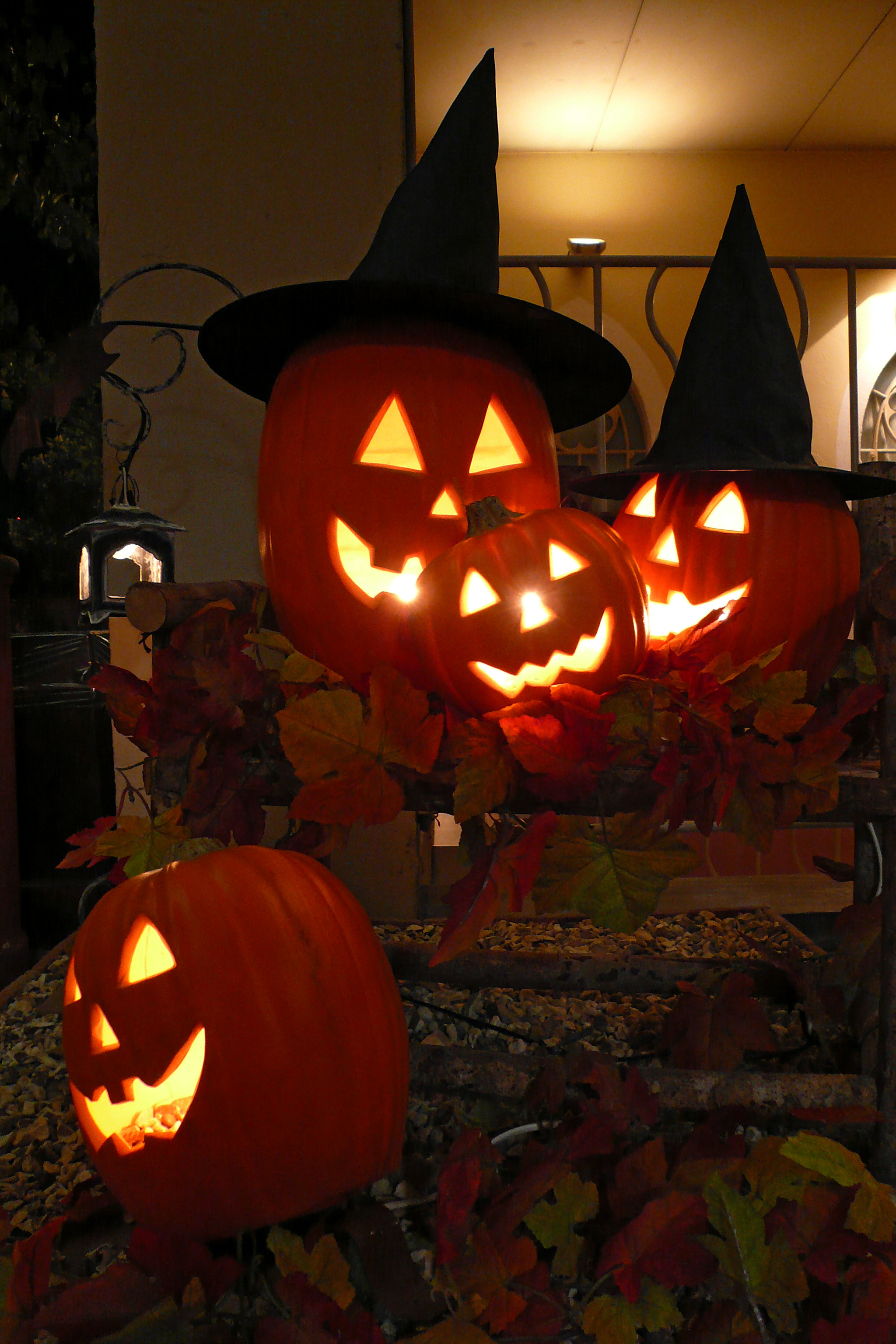 "MOSAIC" of Harborland in Kobe, Hyogo prefecture, Japan